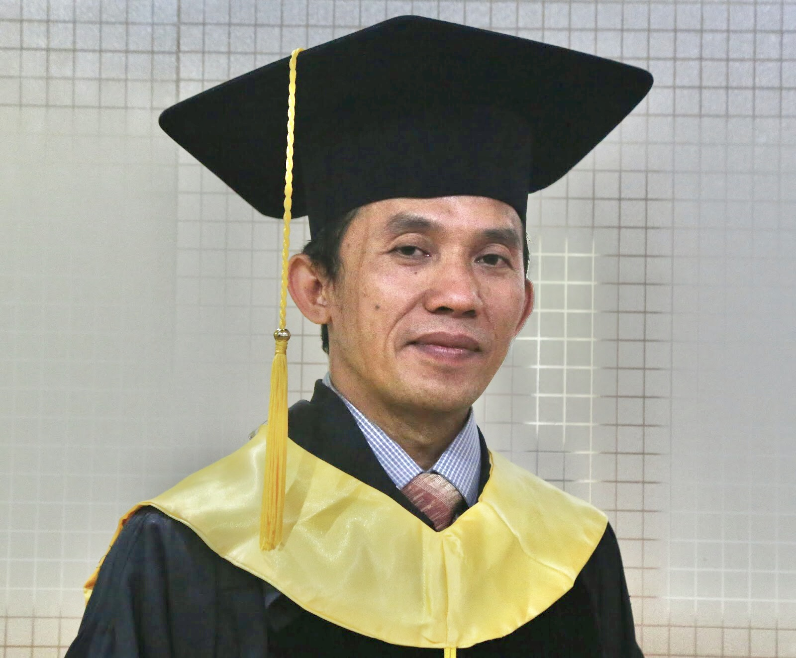 Oman fathurahman's picture